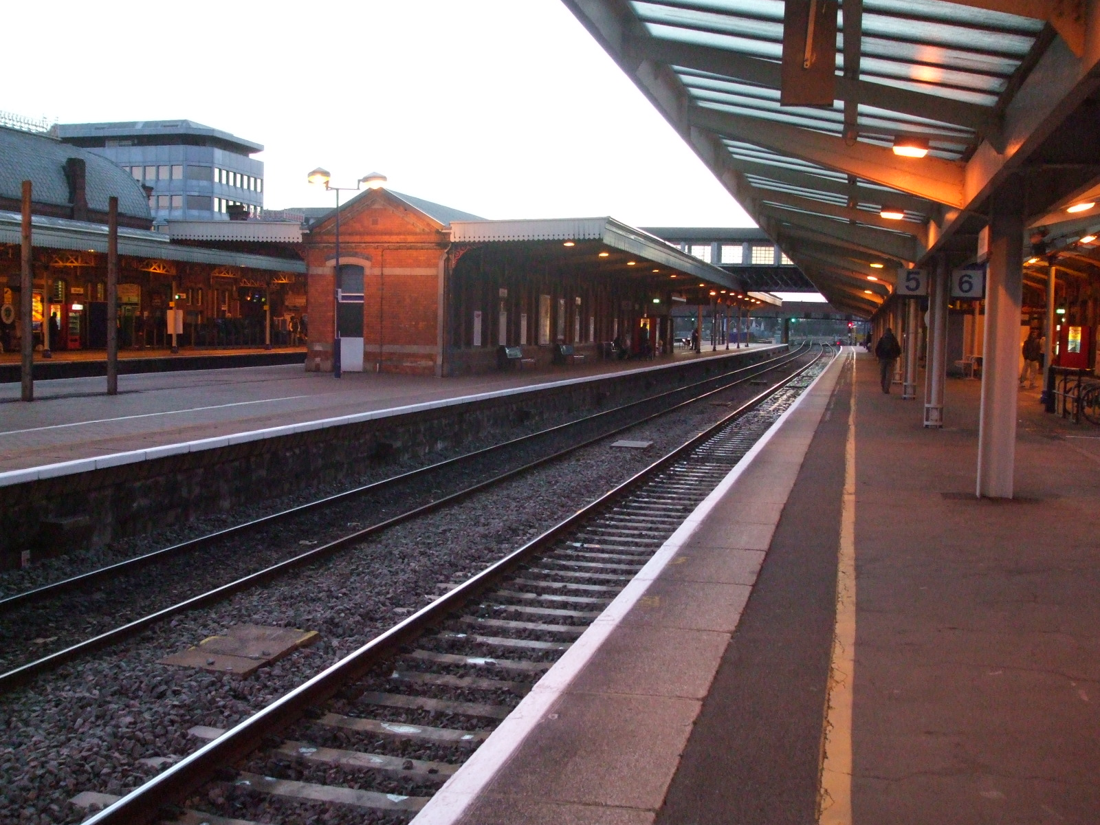 Slough station looking westwards from slow platforms